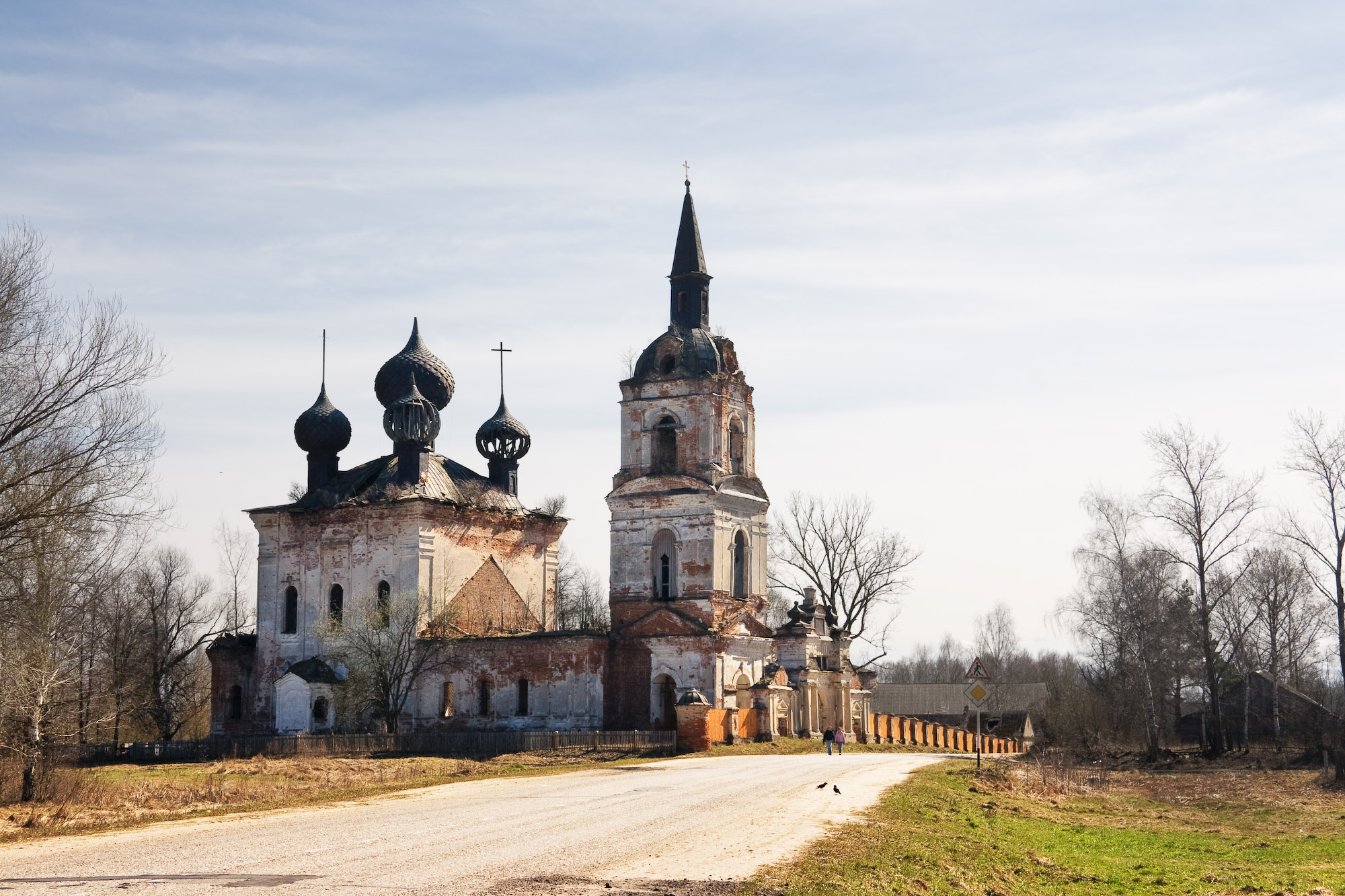 Temple at Vereteya village